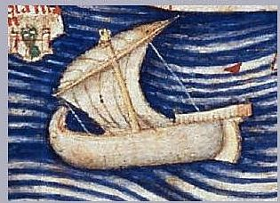 A cut-pste from File:WorldShips1460.jpg, available under PD-old.